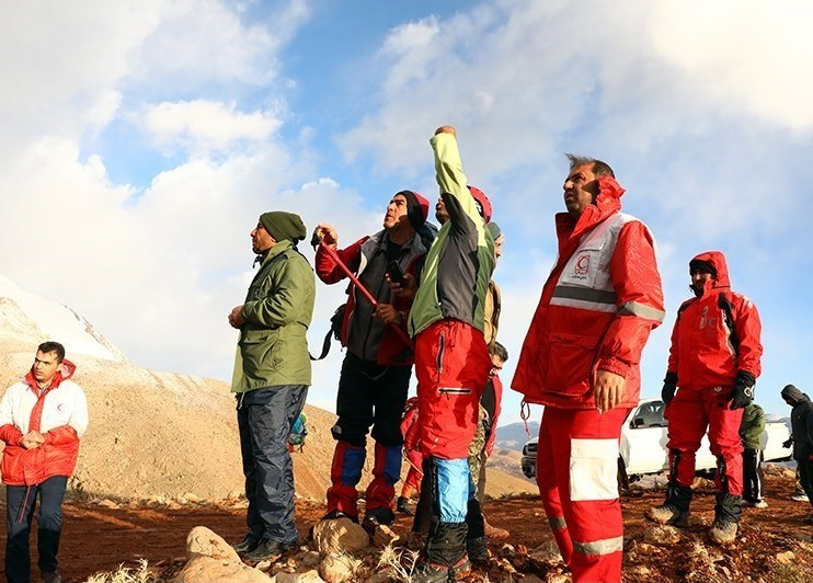 The second day of searching for the crash plane of the ATR 72